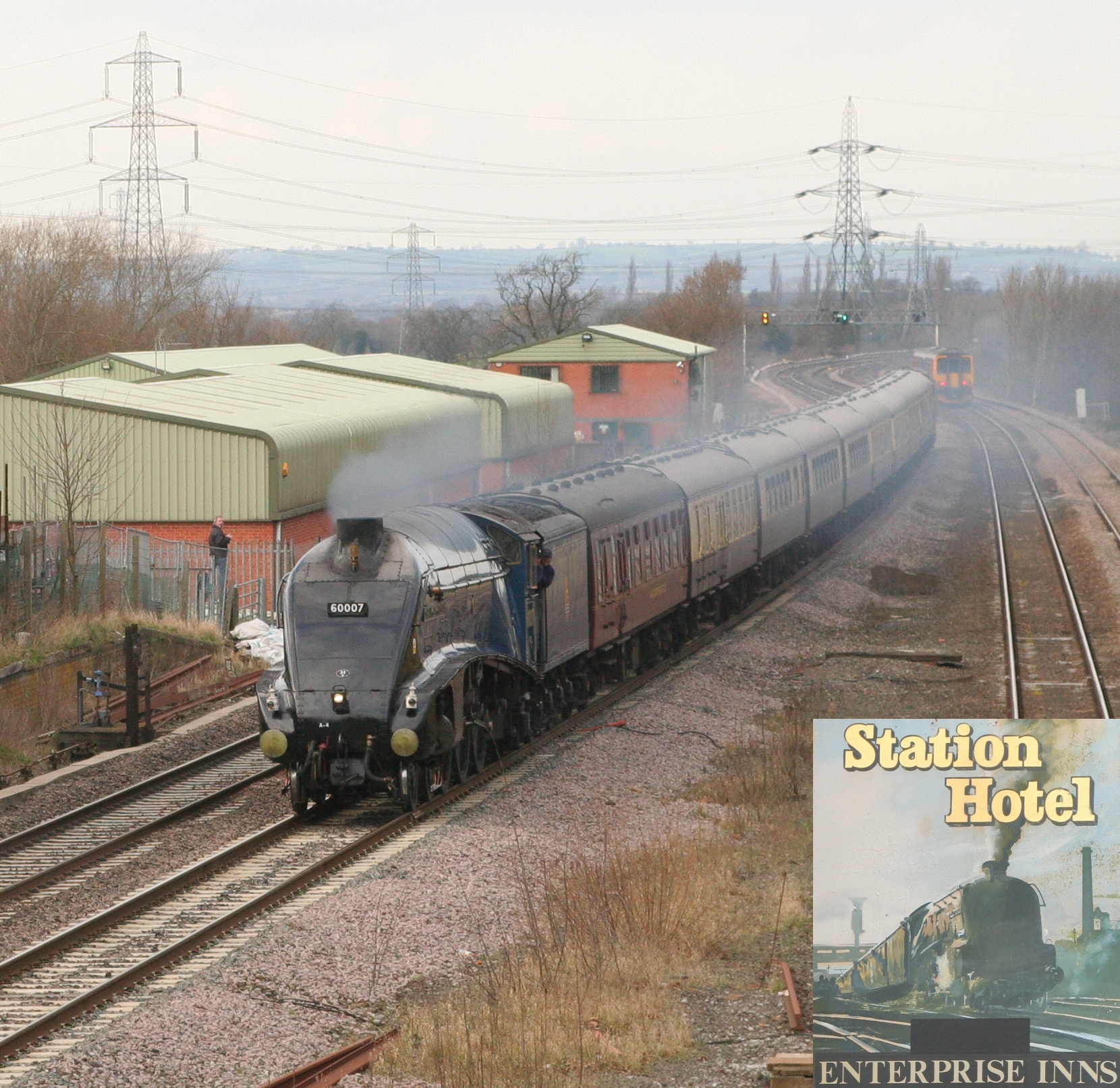 Main picture: Ex-LNER Class A4 No. 60007 Sir Nigel Gresley, owned by The Sir Nigel Gresley Locomotive Preservation Trust heads a York-Birmingham excursion through the remains of Kegworth station (which is actually in Sutton Bonington not Kegworth). The main point of the exercise (headcode 1Z59) was to get 60007 (TOPS No. 98898) from its home base, the North Yorks Moors Railway to the Severn Valley Railway for the SVR's "Festival of Steam" gala the next weekend. The excursion was run by Vintage Trains utilising their chocolate and cream Mk1/2 set. The load consisted of 10 coaches plus Class 47 diesel locomotive No. 47773 which had hauled the 1st leg of the excursion from Birmingham to York. I reckon that's a load of just over 400 tons. Meanwhile, in the background a Class 156 DMU heads towards East Midlands Parkway on the relief lines with a local service. Inset: The sign of the Station Hotel at the former station, also showing a painting of an A4 against an industrial backdrop. This contrasts with the modern industrial backdrop consisting of business units and the power lines from Ratcliffe-on-Soar Power Station, which is just out of view in the background to the right of the photographer. Of course A4s are not historically relevant to the line at all since 60007 is an ex-Eastern engine and this is the Midland Main Line. But now in modern days perhaps it is?